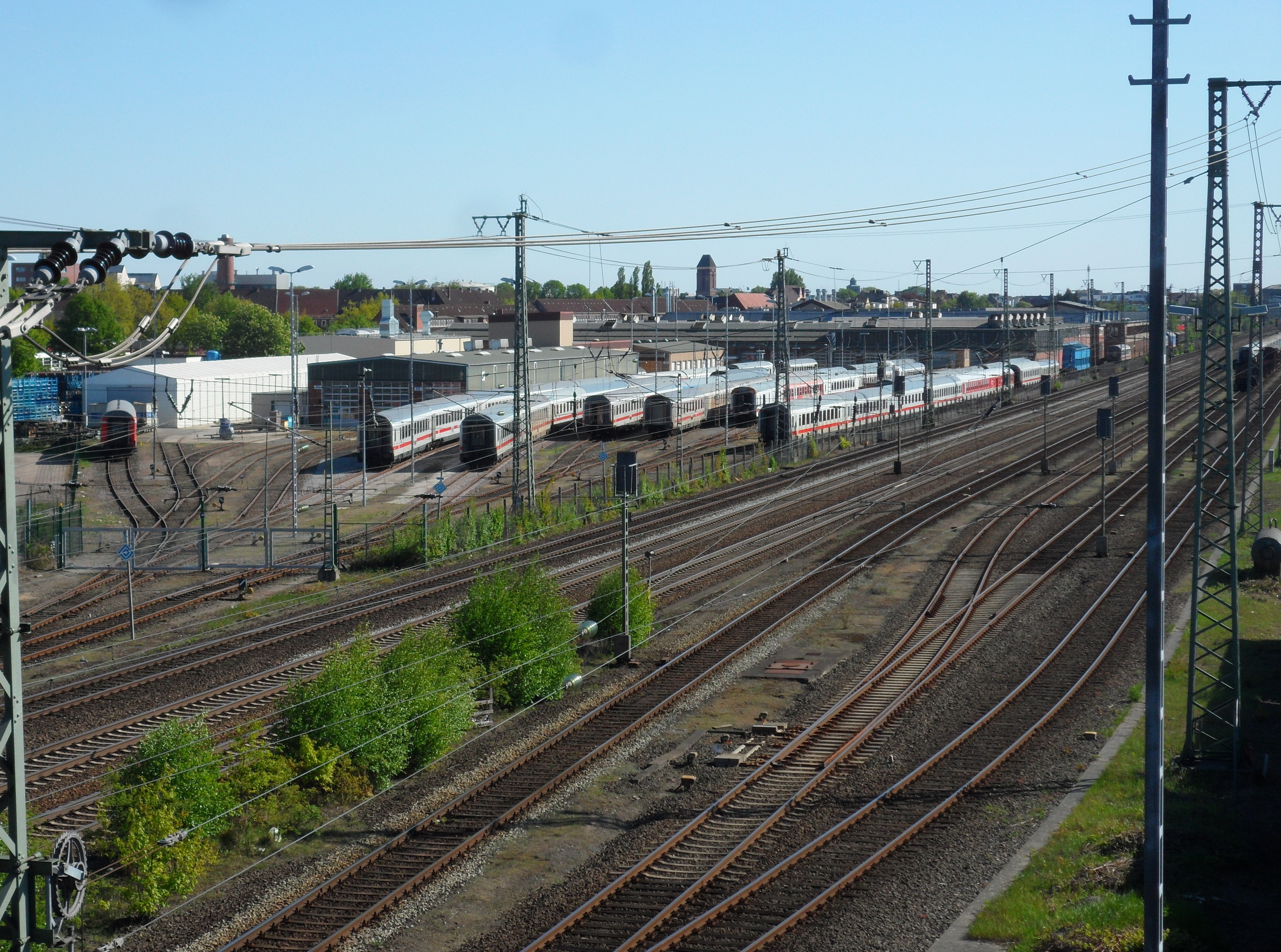 Ausbesserungswerk (Train reparation facility) of the Bundesbahn in Neumünster view from the Max-Johannsen-Brücke